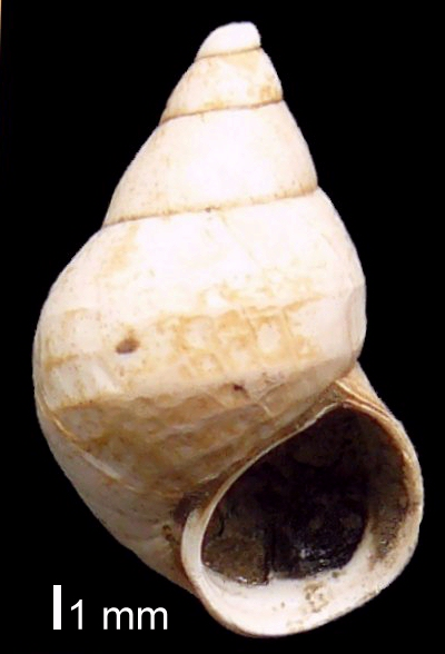 Shell of Parafossarulus crassitesta (Brömme, 1885) - Extinct freshwater prosobranch species (Bithyniidae). Collected in Bavelian clayey deposits in Jockgrim, France. Species with european distribution; Age range: Late Tiglian up to and including Holsteinian.